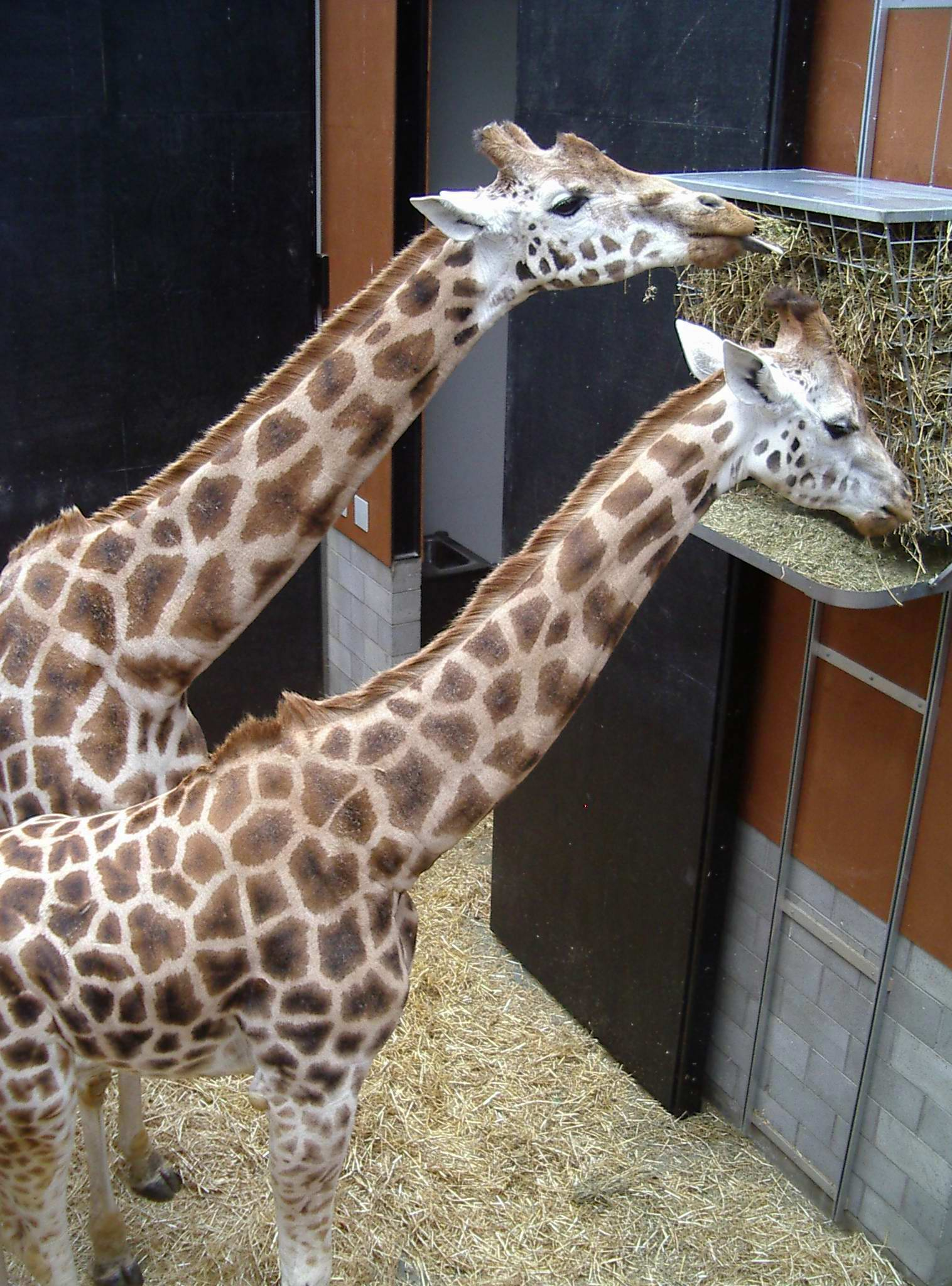 An adult and young giraffe (Giraffa camelopardalis) feeding in the newly installed giraffe enclosure at Wellington Zoo (New Zealand).